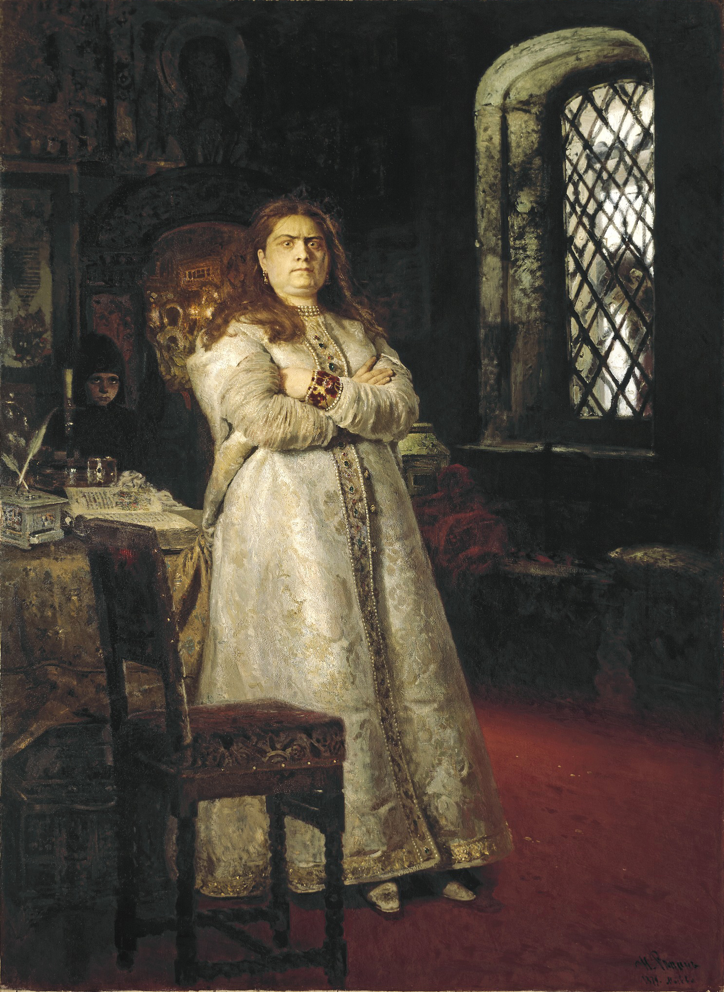 Grand Duchess Sofia at the Novodevichy Convent (1698)